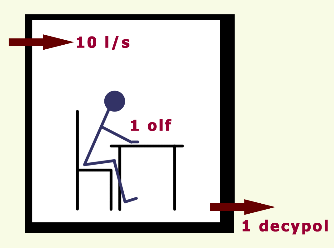 definition of decypol